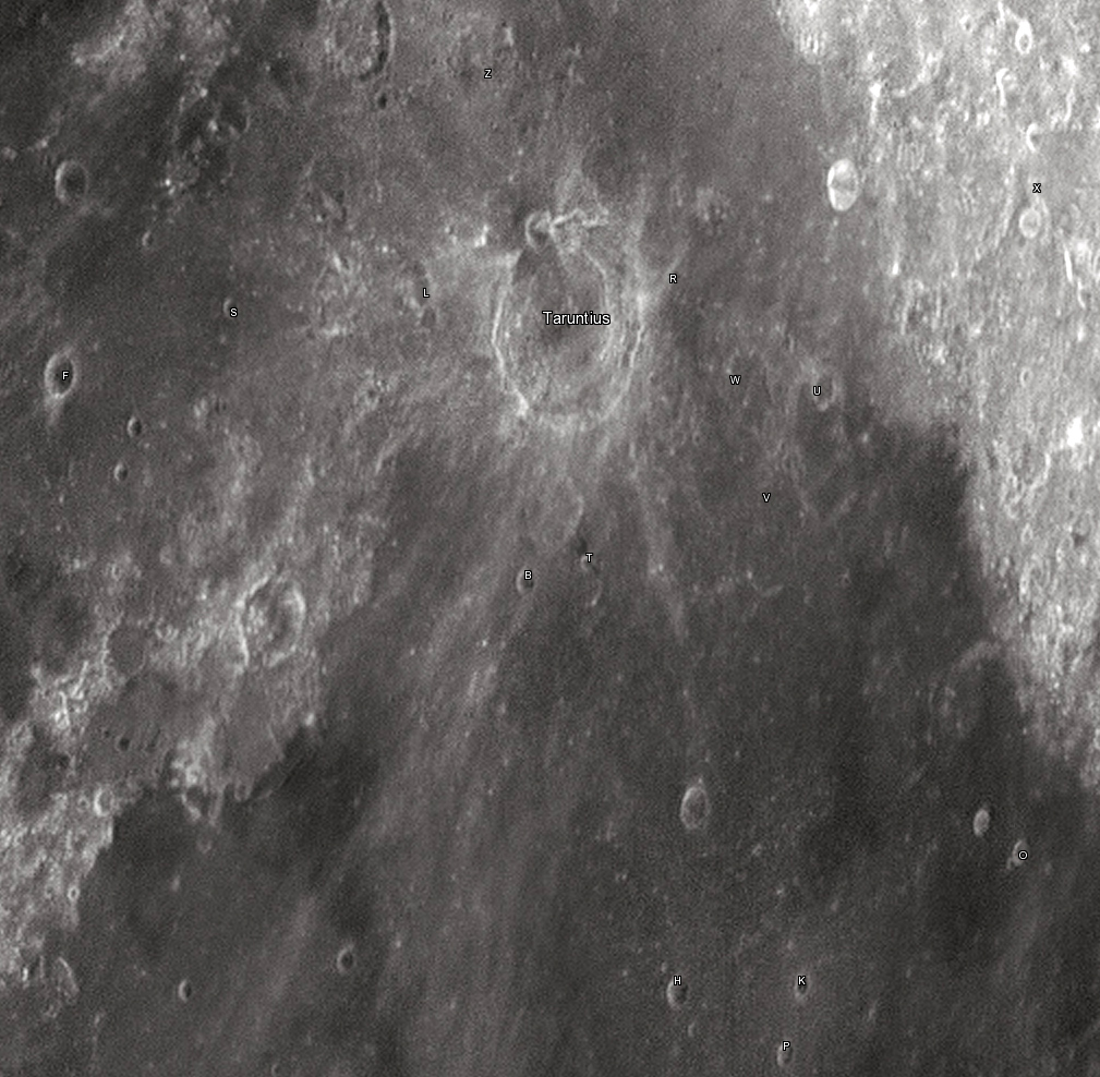 Taruntius lunar crater as seen from Earth with satellite craters labeled